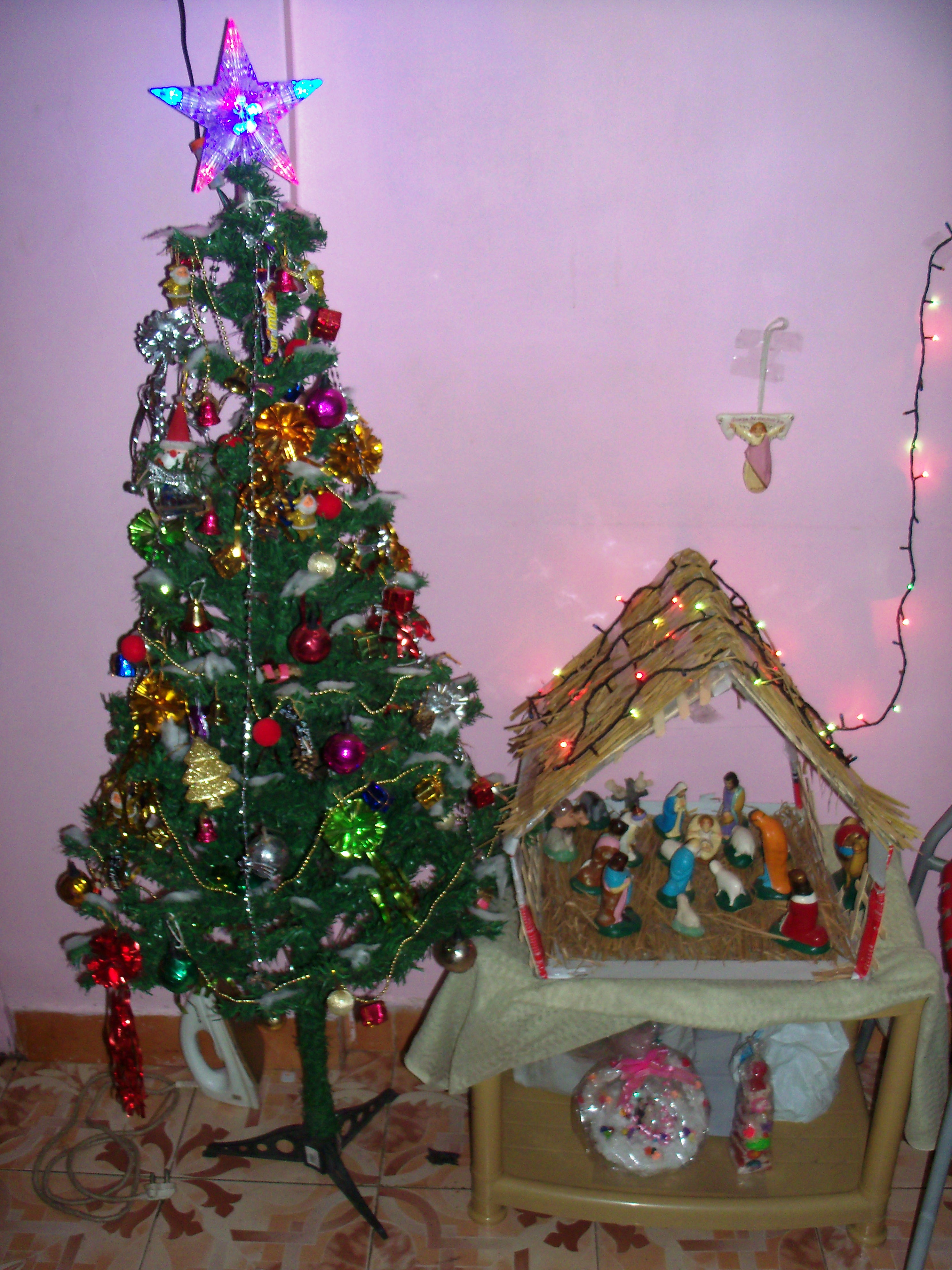 Indian house makes Christmas crib